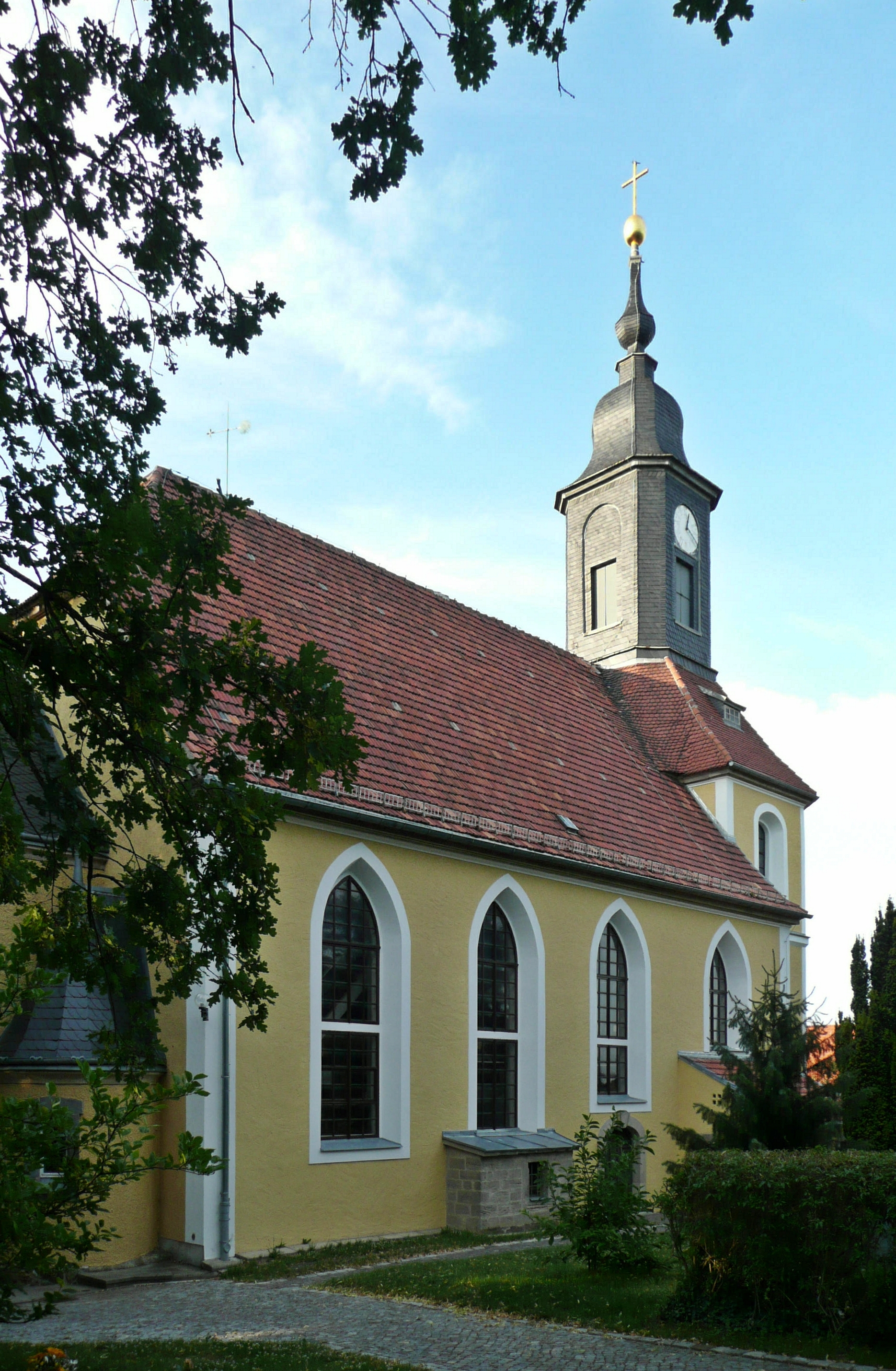 This image shows the evangelic church (rebuilt 1723/25 by George Bähr) in Kesselsdorf near Dresden in Saxony.